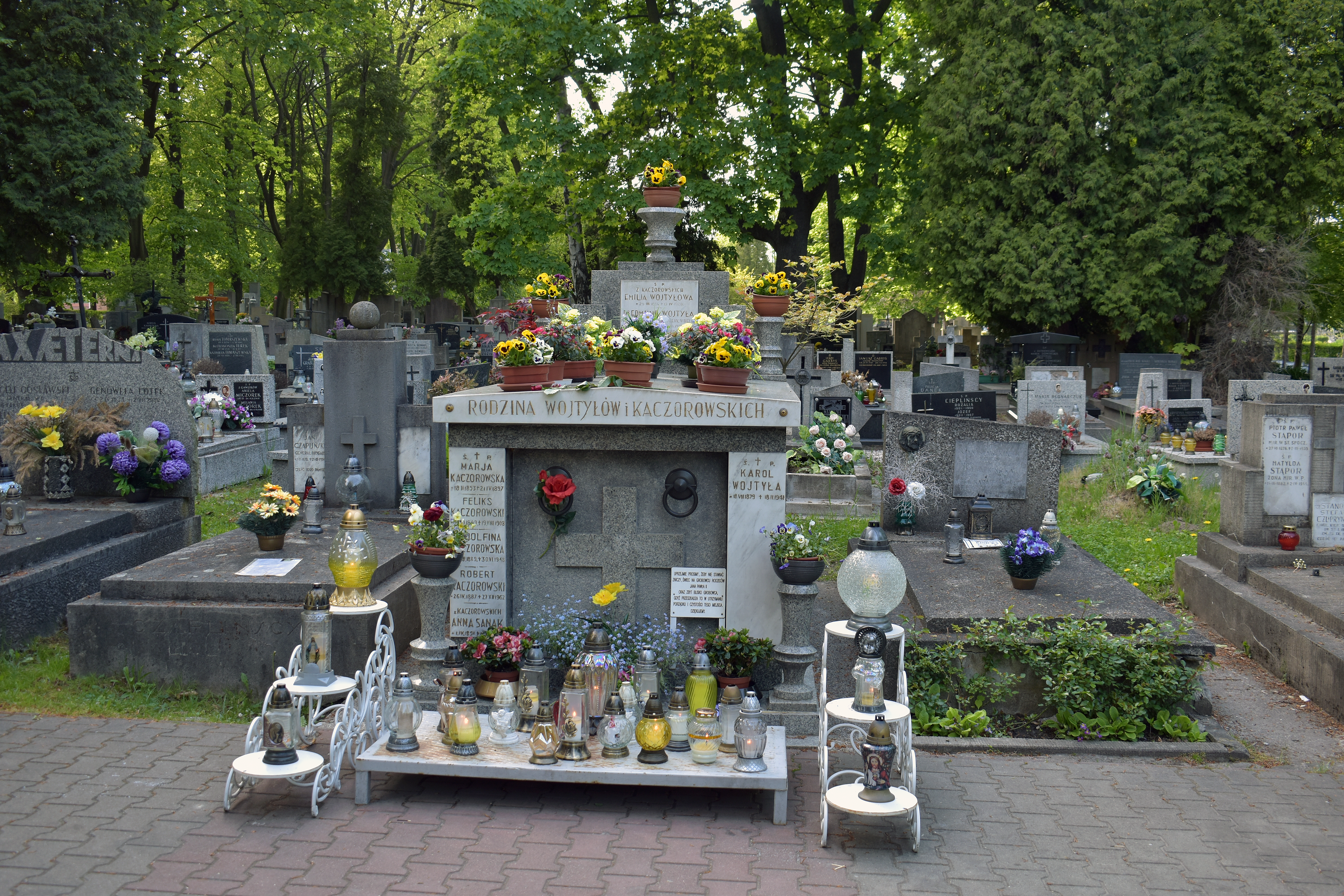 Tomb of the parents of John Paul II, Military cemetery, 1 Prandoty street, Kraków, Poland